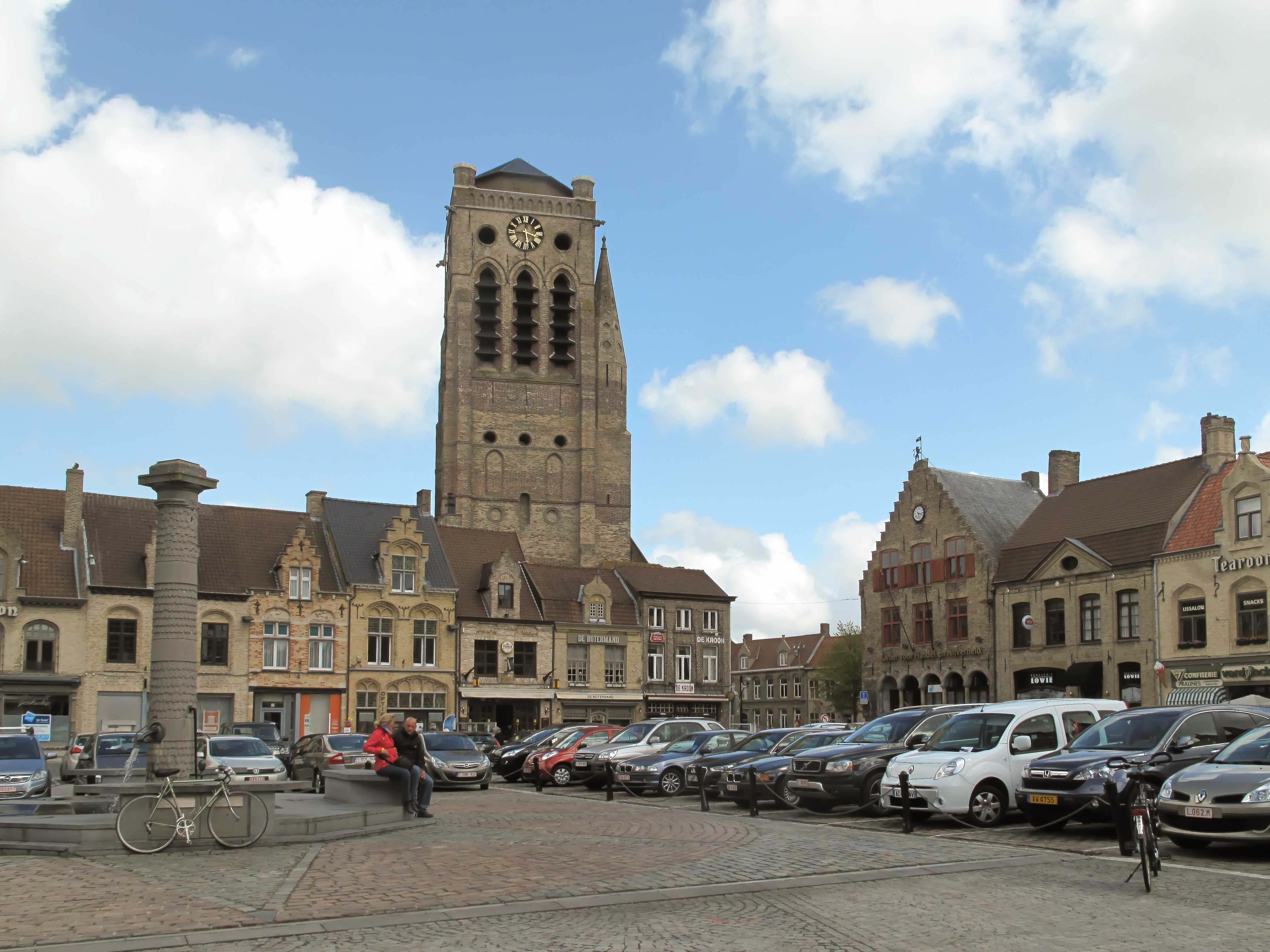 Veurne, church: parochiekerk Sint Niklaas